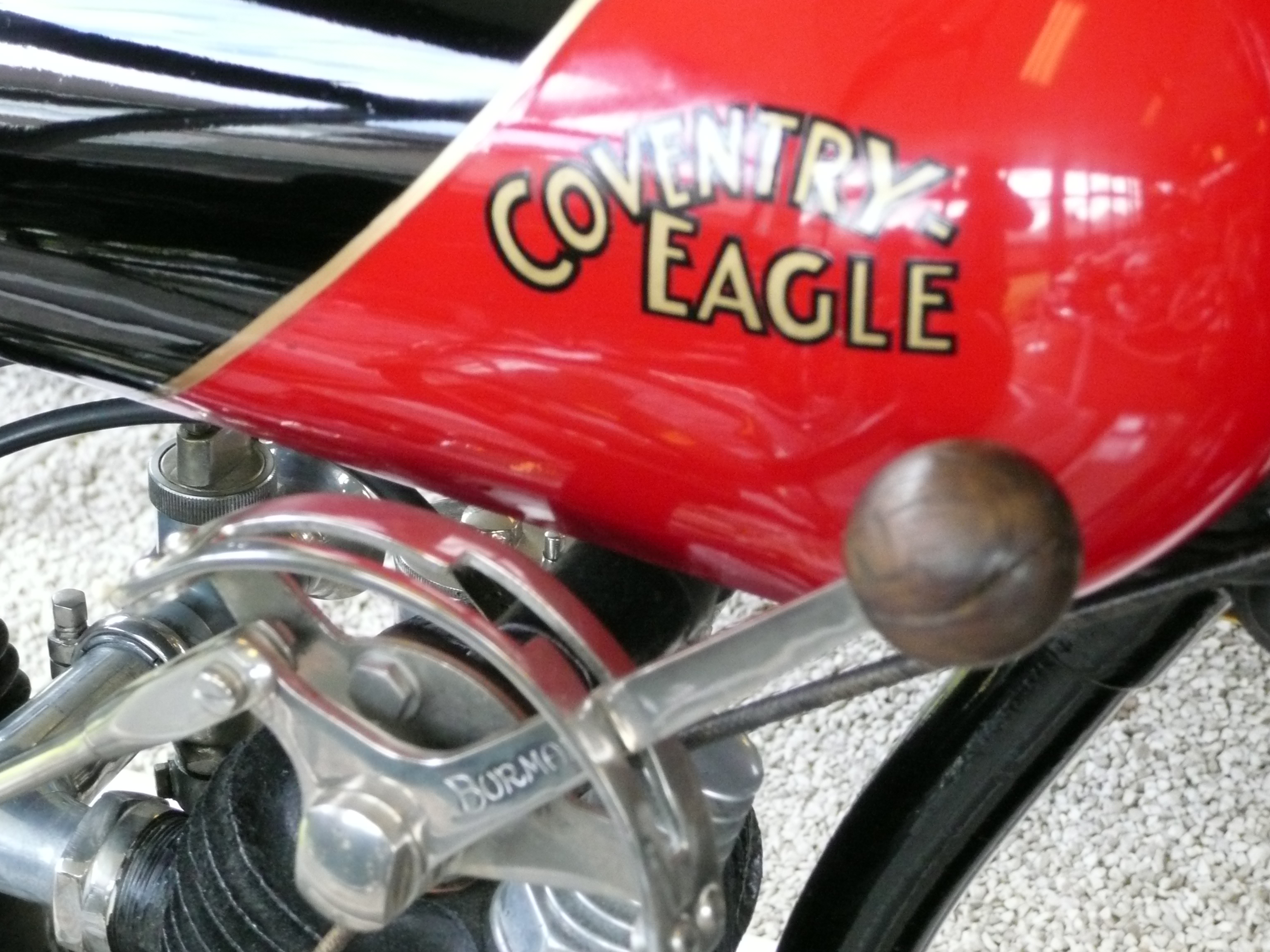 Coventry Eagle Flying 6 motorcycle (1927)